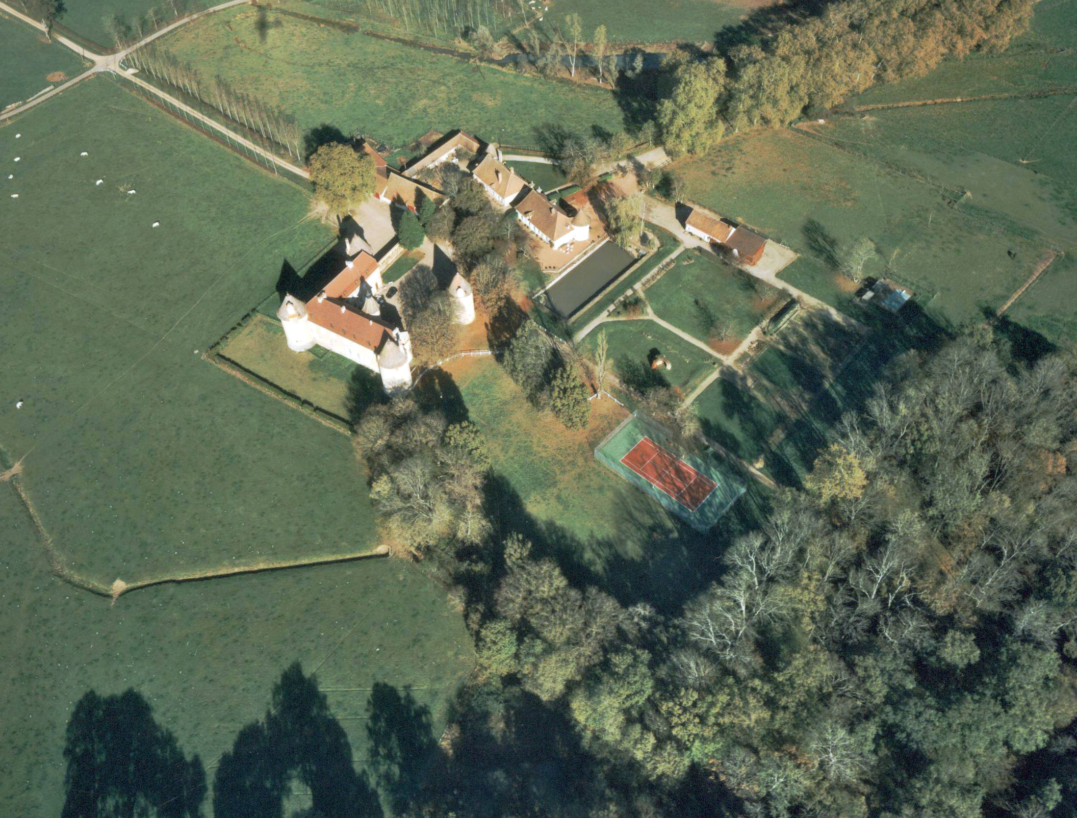 Photo of the Arcy Castle in Burgundy, France, close from vindecy 71110